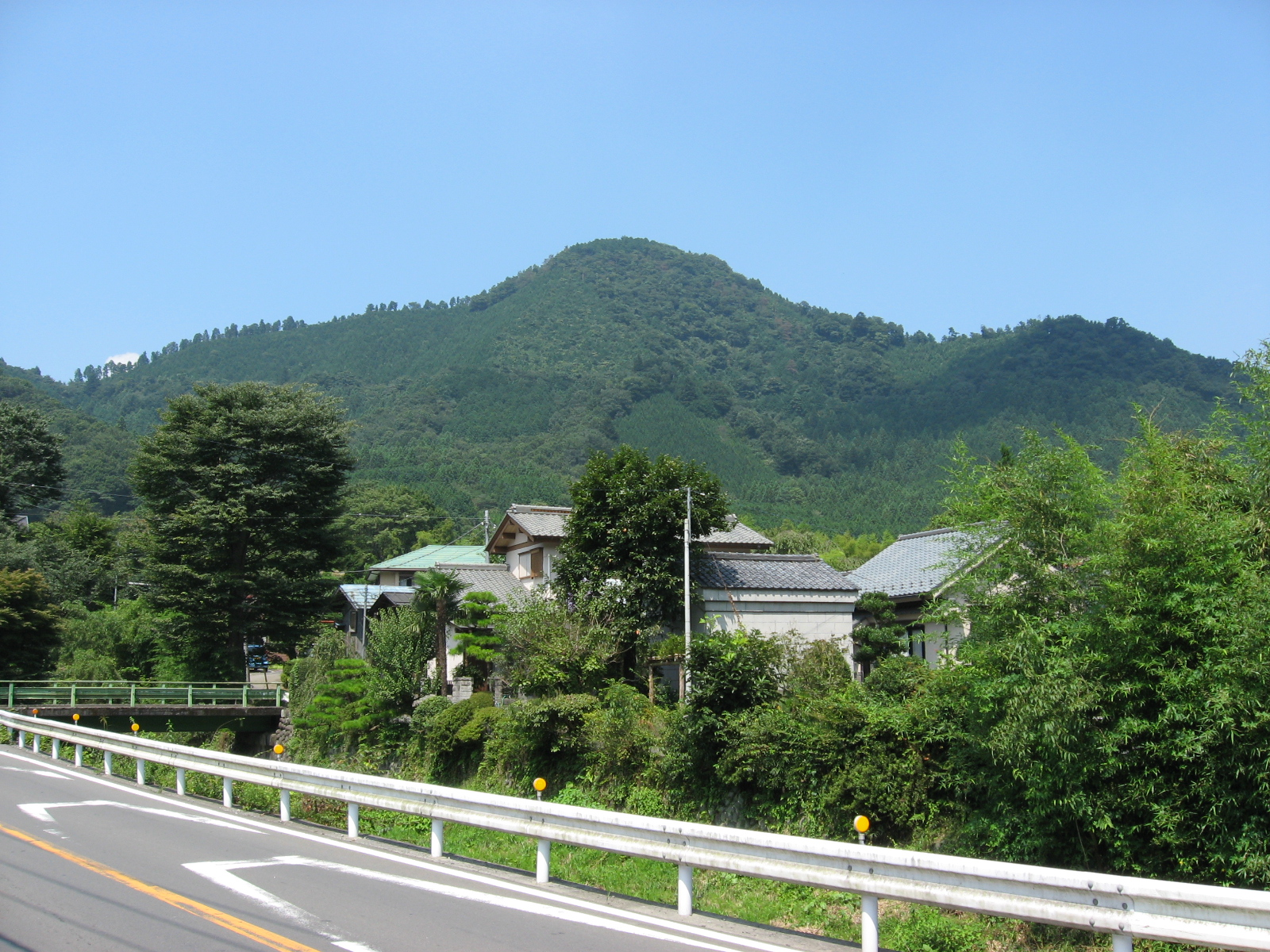 Mt.Sendouji, Mts.Tanzawa, Kanagawa, Japan.